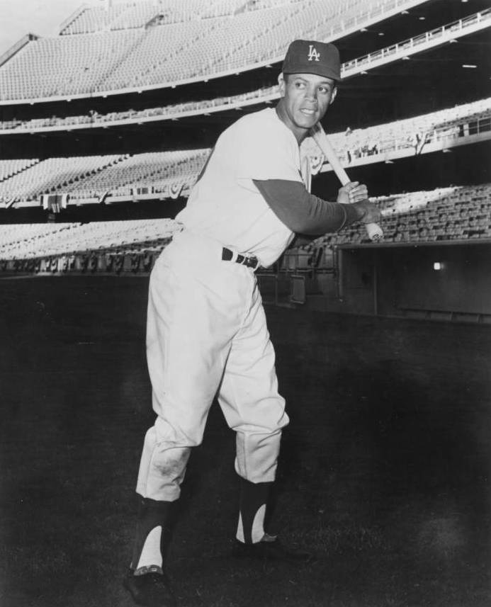 Title Portrait of the baseball player Maury Willis, ca.1960 Description Photographic portrait of the baseball player Maury Wills, ca.1960. Wills bats left handed as he poses for the picture while facing the camera. The baseball field that he stands on appears as a black mass under his feat while an empty baseball stadium is visible behind him. Subject Wills, Maury; Los Angeles Dodgers Subject (adlf) sports facilities Subject (file heading) Recreation -- Baseball Subject (lcsh) Baseball Geographic subject (city or populated place) Los Angeles Geographic subject (county) Los Angeles Geographic subject (state) California Geographic subject (country) USA Coverage date circa 1960 Publisher (of the digital version) University of Southern California. Libraries Date created circa 1960 Type images Format (aacr2) 1 photograph : photoprint, b&w ; 26 x 21 cm. Format (aat) photographic prints photographs Contributing entity California Historical Society Accession number 42569 Call number CHS-42569 Microfiche number 1-90-720 Legacy record ID chs-m5233; USC-0-1-1-5339 Part of collection California Historical Society Collection, 1860-1960 Project USC Rights Public Domain. Release under the CC BY Attribution license -- -- Credit both “University of Southern California. Libraries” and “California Historical Society” as the source. Digitally reproduced by the USC Digital Library; From the California Historical Society Collection at the University of Southern California Physical access Send requests to address or e-mail given Repository name USC Libraries Special Collections Repository address Doheny Memorial Library, Los Angeles, CA 90089-0189 Repository Filename CHS-42569 Archival file chs_Volume148/CHS-42569.tiff